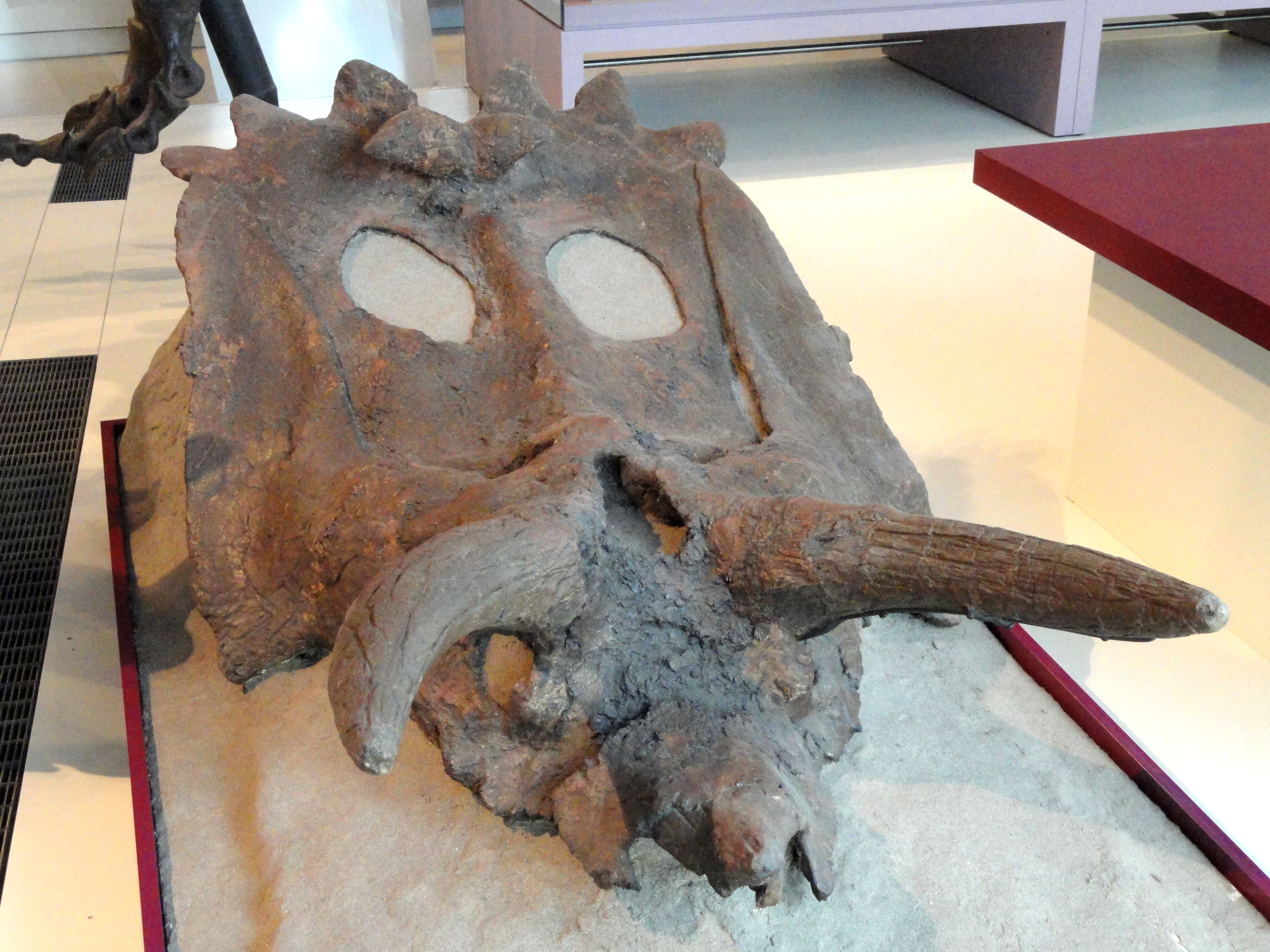 Anchiceratops specimen ROM 802. Exhibit in the Royal Ontario Museum, Toronto, Ontario, Canada. This exhibit is old enough so that it is in the public domain, and photography was permitted in the museum. I took this photograph and release it into the public domain.